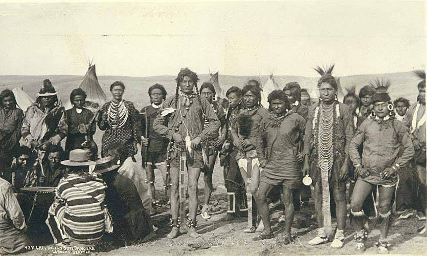 Caption on image: "Cree Indian sun dancers" Subjects (LCSH): Indians of North America--Montana; Cree Indians--Montana; Cree dancers--Montana